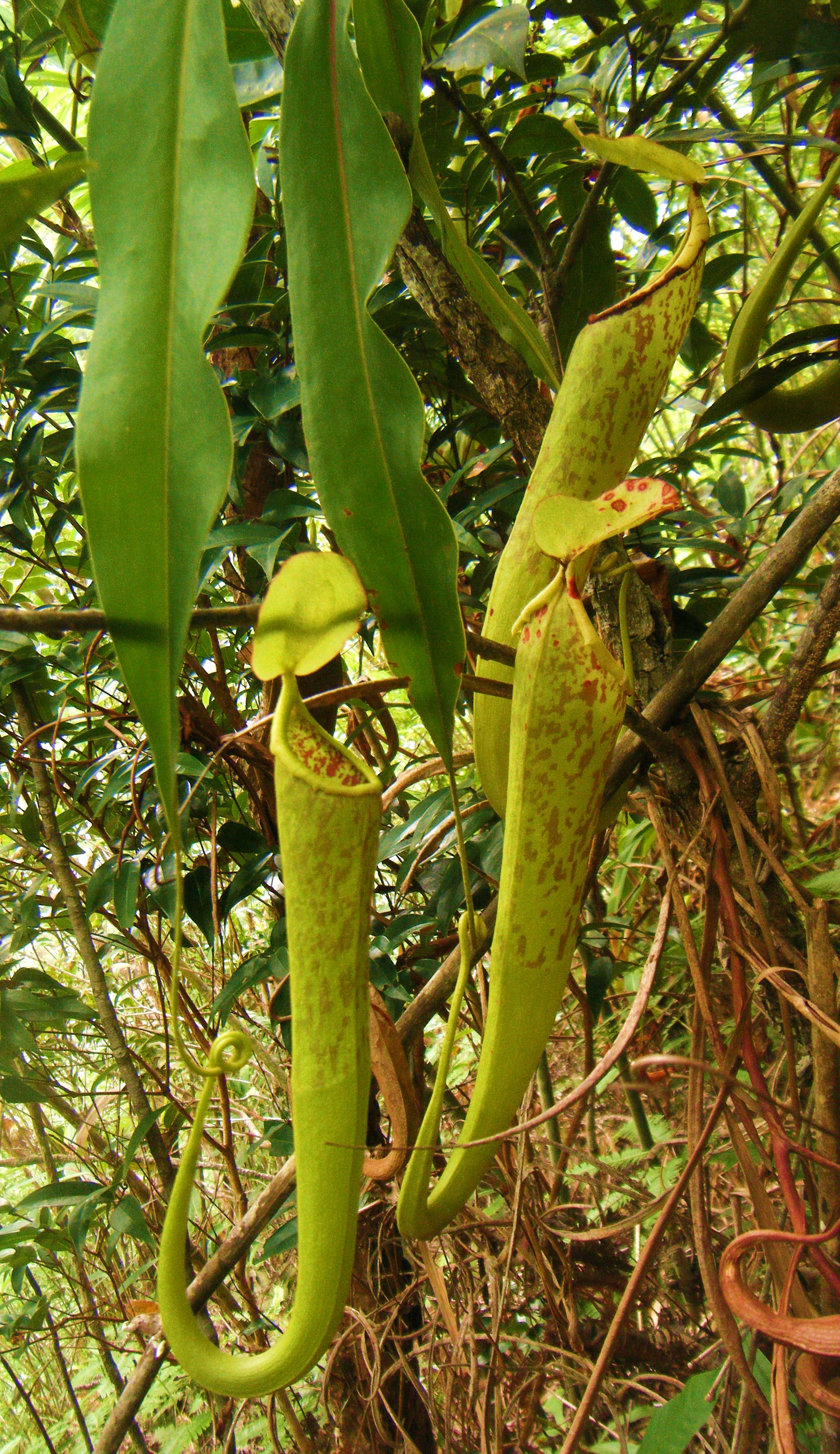 Nepenthes chang upper pitchers, Thailand